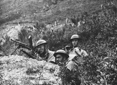 Photo illustrating Canadian defence of Hong Kong